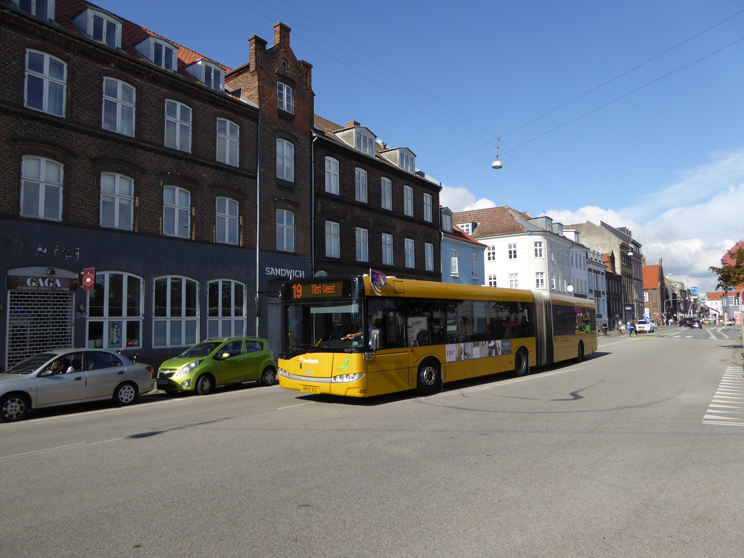 Midttrafik bus line 19 on Fredensgade in Aarhus in Denmark.